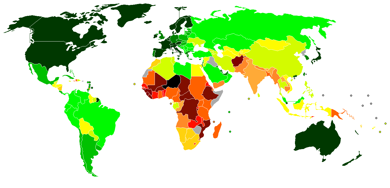 The United Nations Human Development Index (HDI) rankings for 2009. For full details, see List of countries by Human Development Index (en.wikipedia) 0.950 and over 0.900–0.949 0.850–0.899 0.800–0.849 0.750–0.799 0.700–0.749 0.650–0.699 0.600–0.649 0.550–0.599 0.500–0.549 0.450–0.499 0.400–0.449 0.350–0.399 under 0.350 Data unavailable